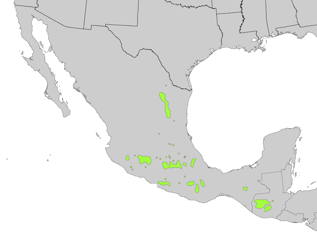 Range map of Pinus montezumae